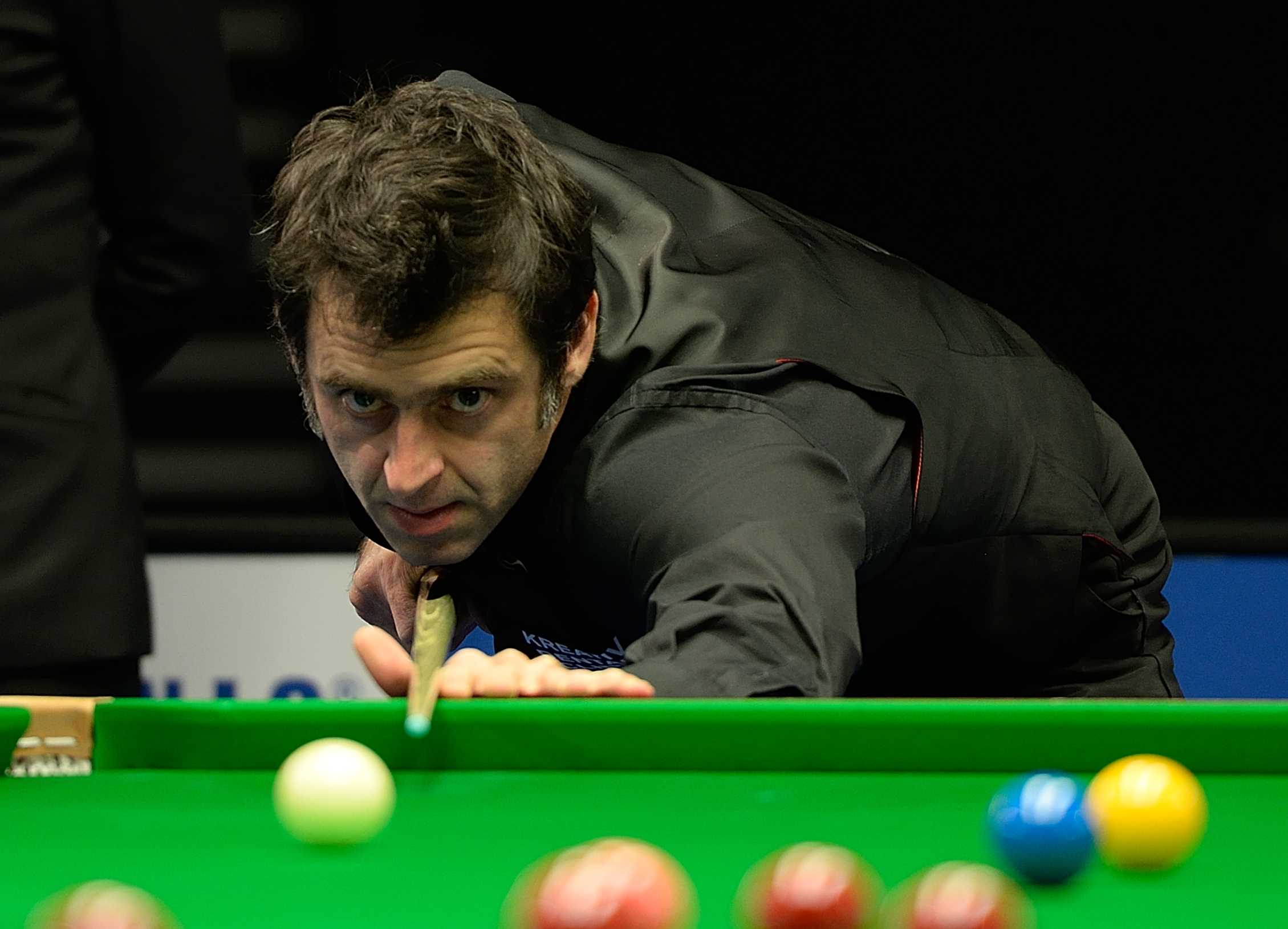 Picture taken in Berlin during the Snooker German Masters in 2015. Ronnie O’Sullivan.